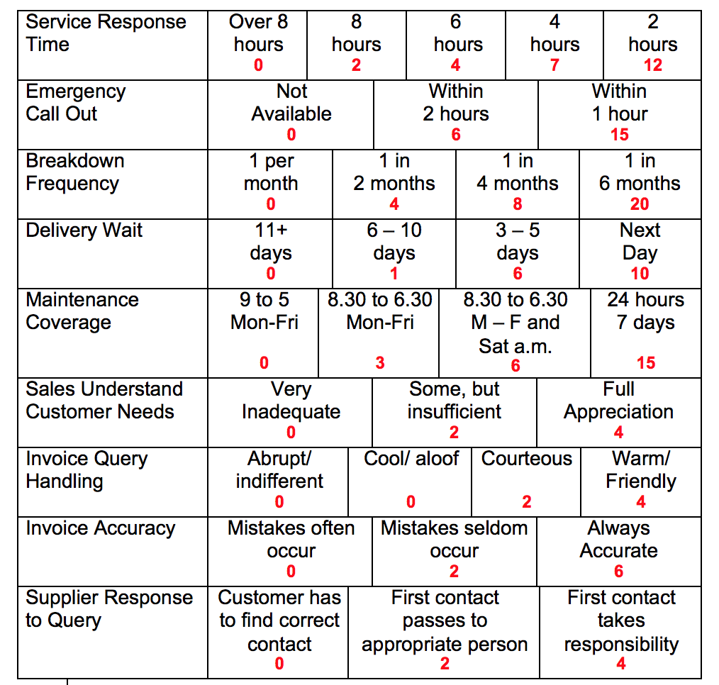 Simalto Matrix New version